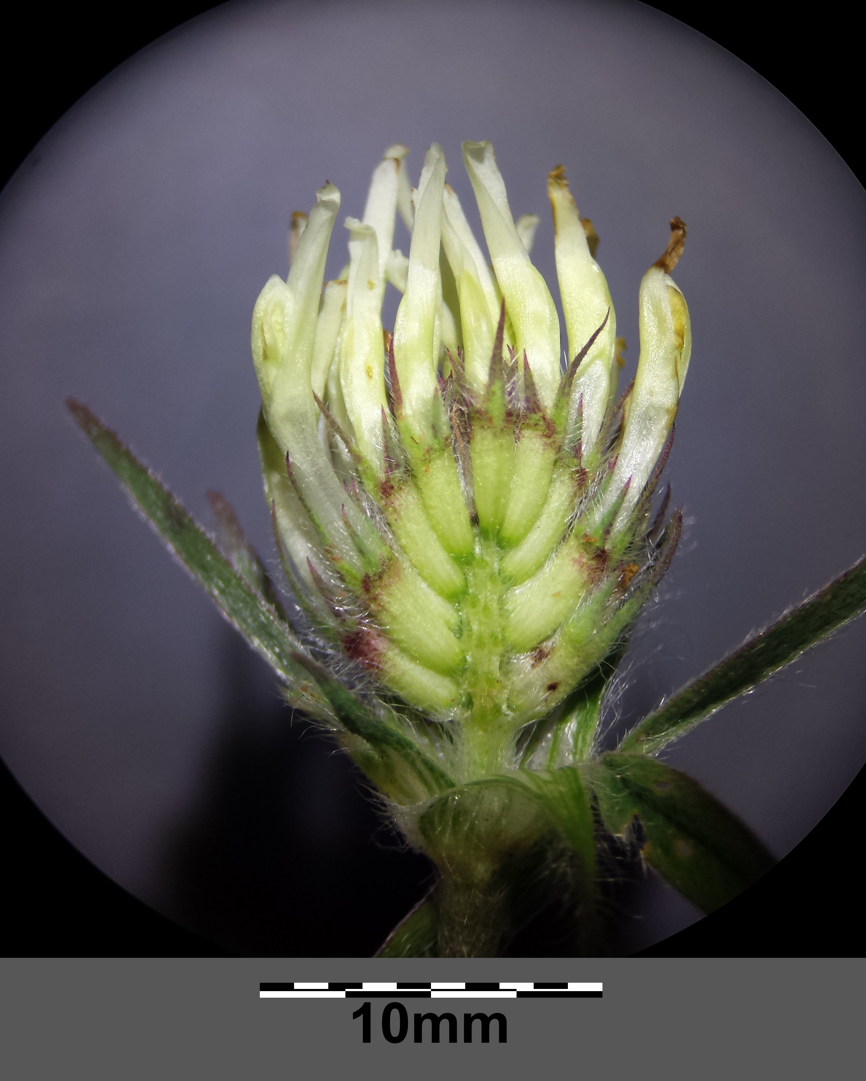 Head, front flowers removed Taxonym: Trifolium ochroleucon ss Fischer et al. EfÖLS 2008 ISBN 978-3-85474-187-9 Location: near Kaltenleutgeben, district Mödling, Lower Austria - ca. 430 m a.s.l. Habitat: meadows